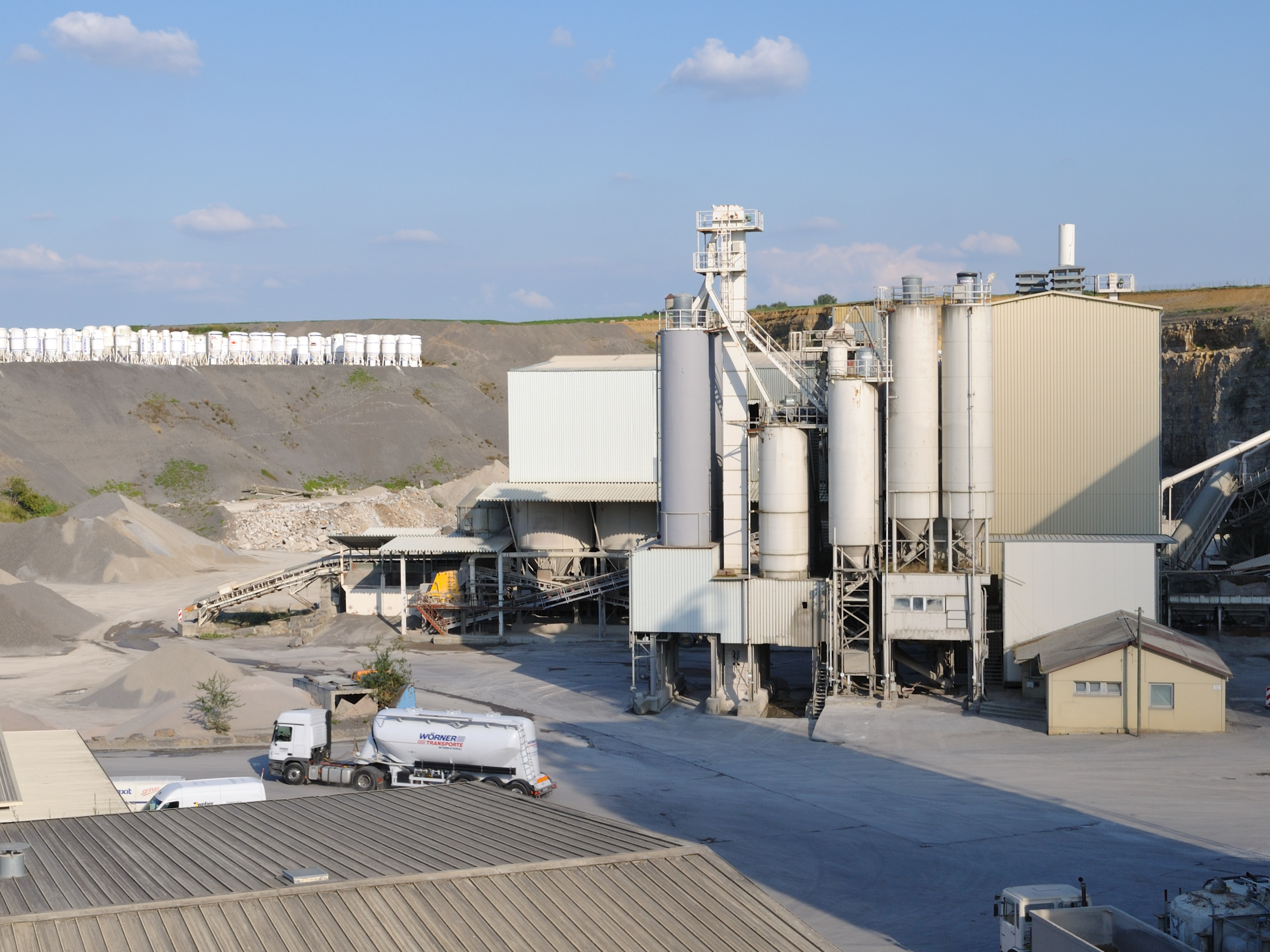 Quarry and stone breaking works of Rombold & Gfröhrer in Hirschlanden in Baden-Württemberg, Germany.